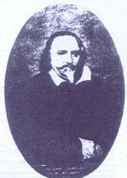 17th-century painting, 2D reproduction of